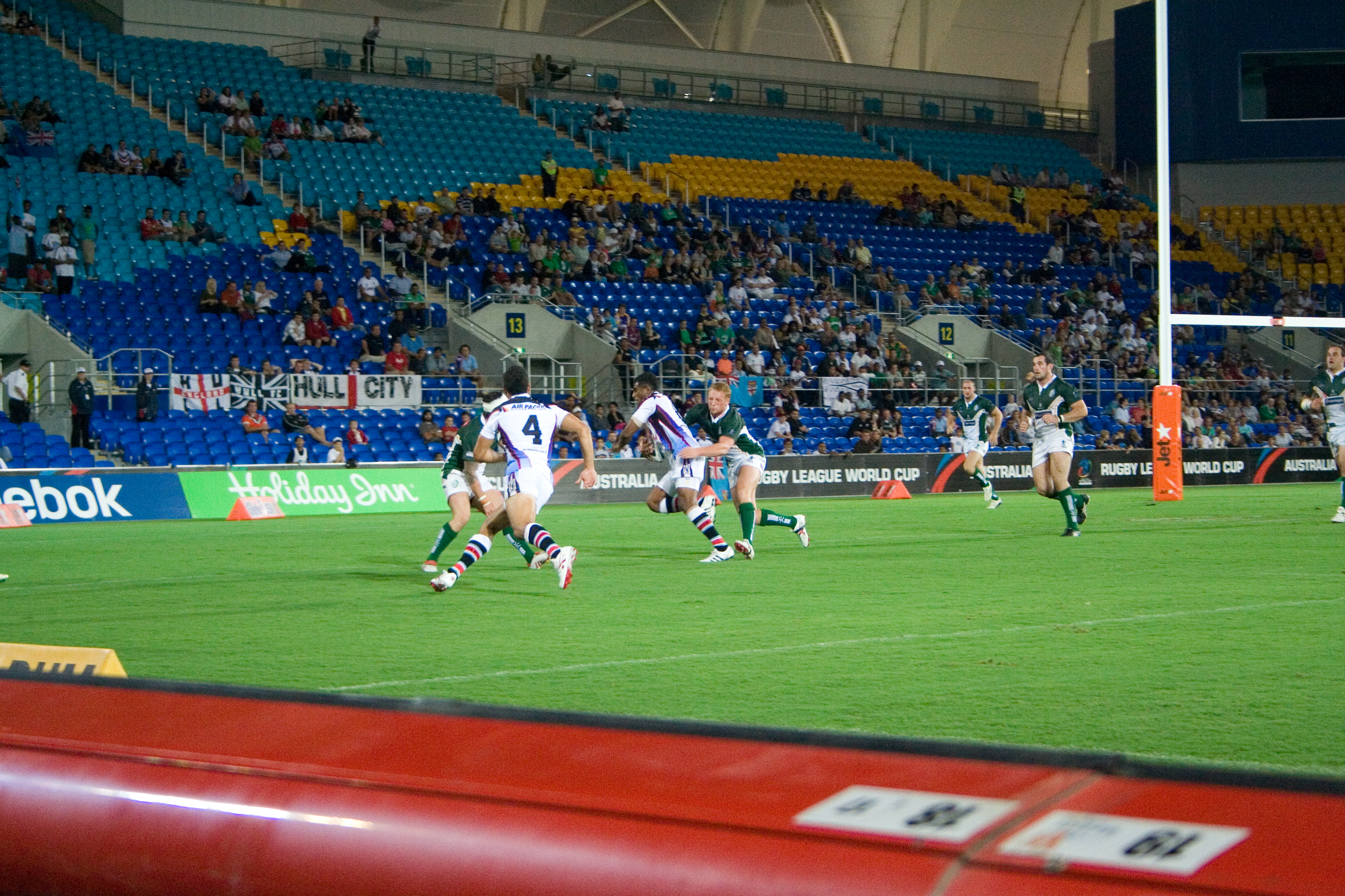 Skilled Park Gold Coast, Australia